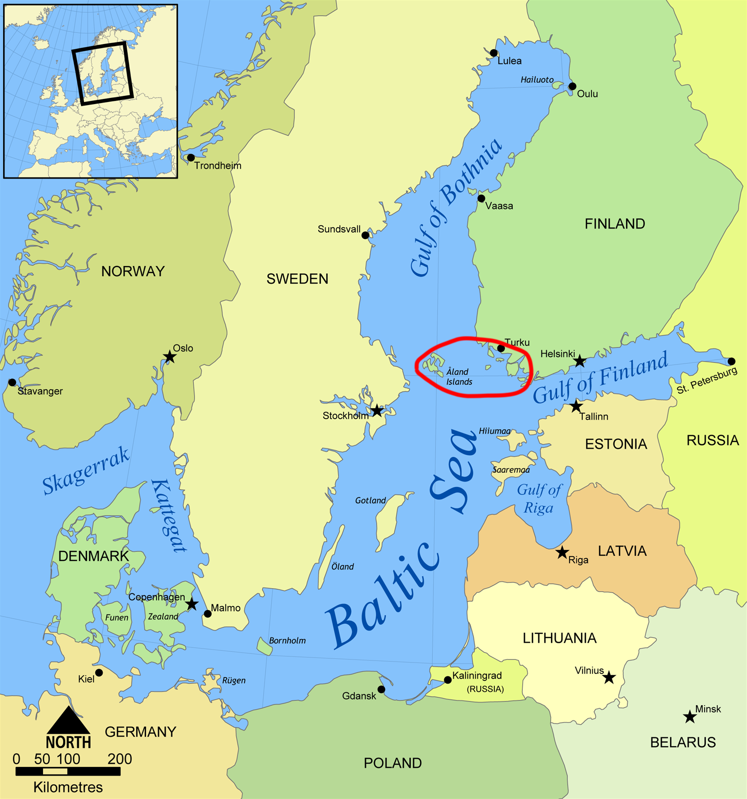 This is a map of the Baltic Sea with the Archipelago Sea marked. It is a slightly modified version of the file "Baltic Sea map.png".